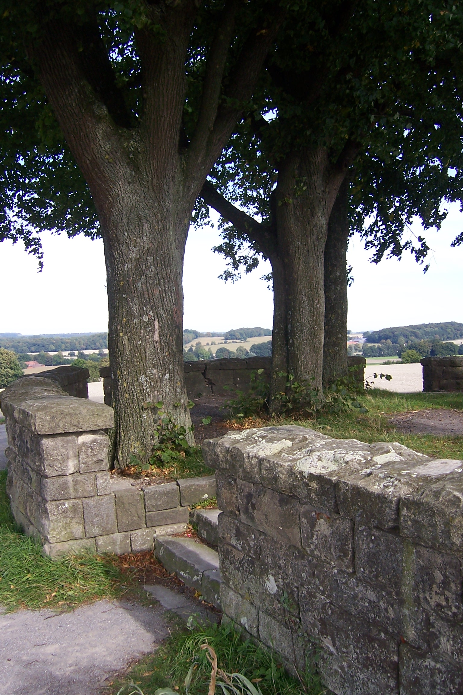 The scenic overlook called "Dreilindenhöhe" (meaning "three lime-tree´s hill") is a high place on the Coesfelder Berg, Coesfeld, NRW, Germany.